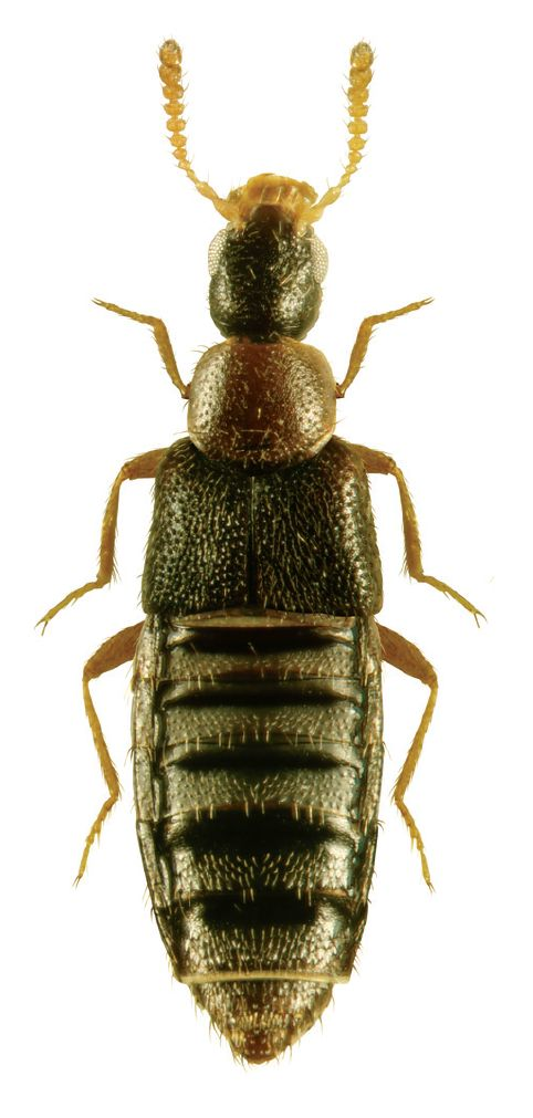 Dorsal view of Gyrophaena (Phaenogyra) gracilis.